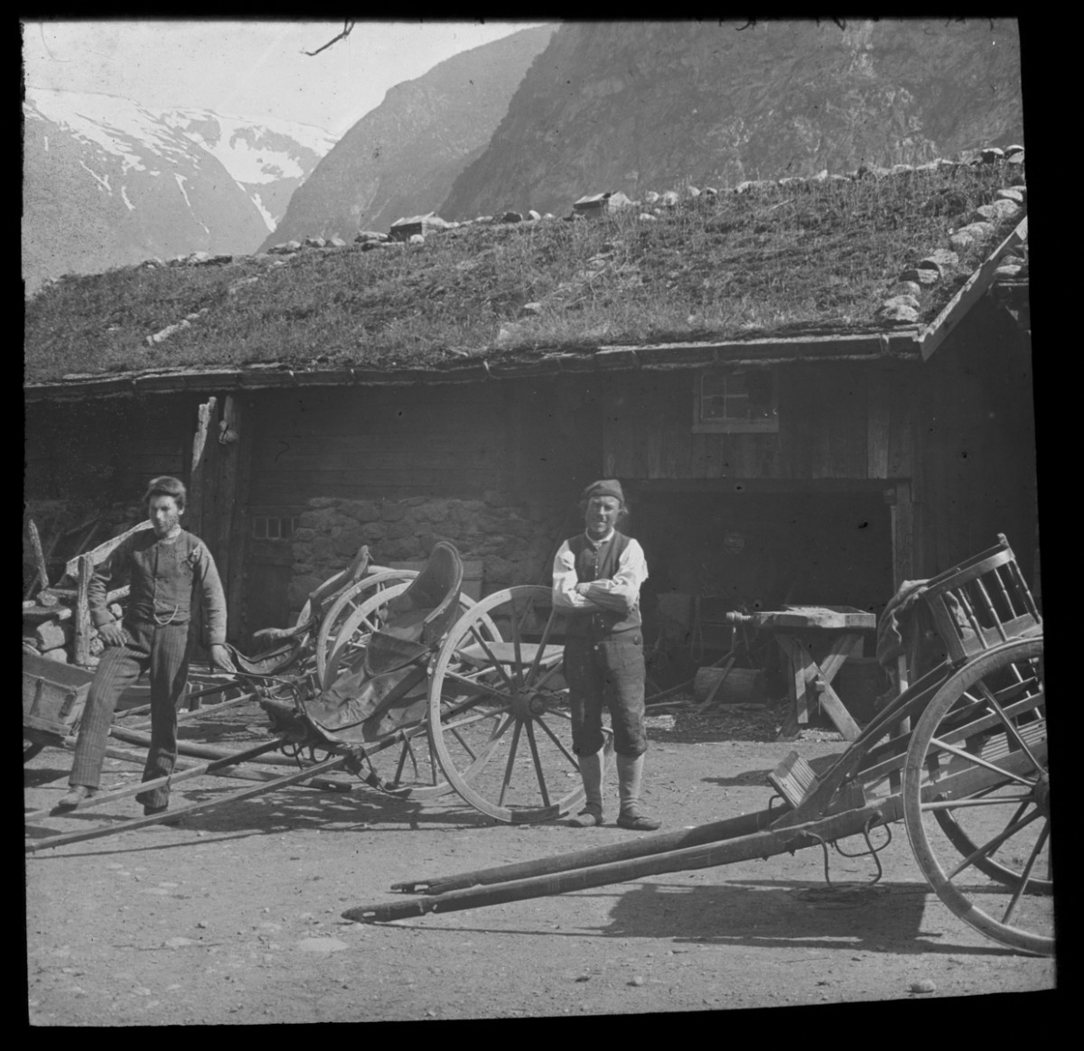 The Laterna Magica or "magic lantern" slides by Jane Shackleton, from the archives of The Photo Album of Ireland